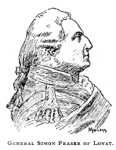 From book: 'An Historical Account of the Settlements of Scotch Highlanders in America prior to the Peace of 1783' by J.P. Maclean (1900) Book is out of copyright.